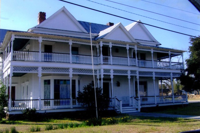 The DeLoach House in Hagan, Georgia, a building on the National Register of Historic Places.